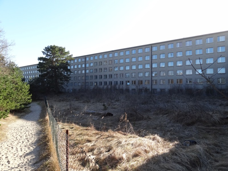 KdF building in Prora on Rugen